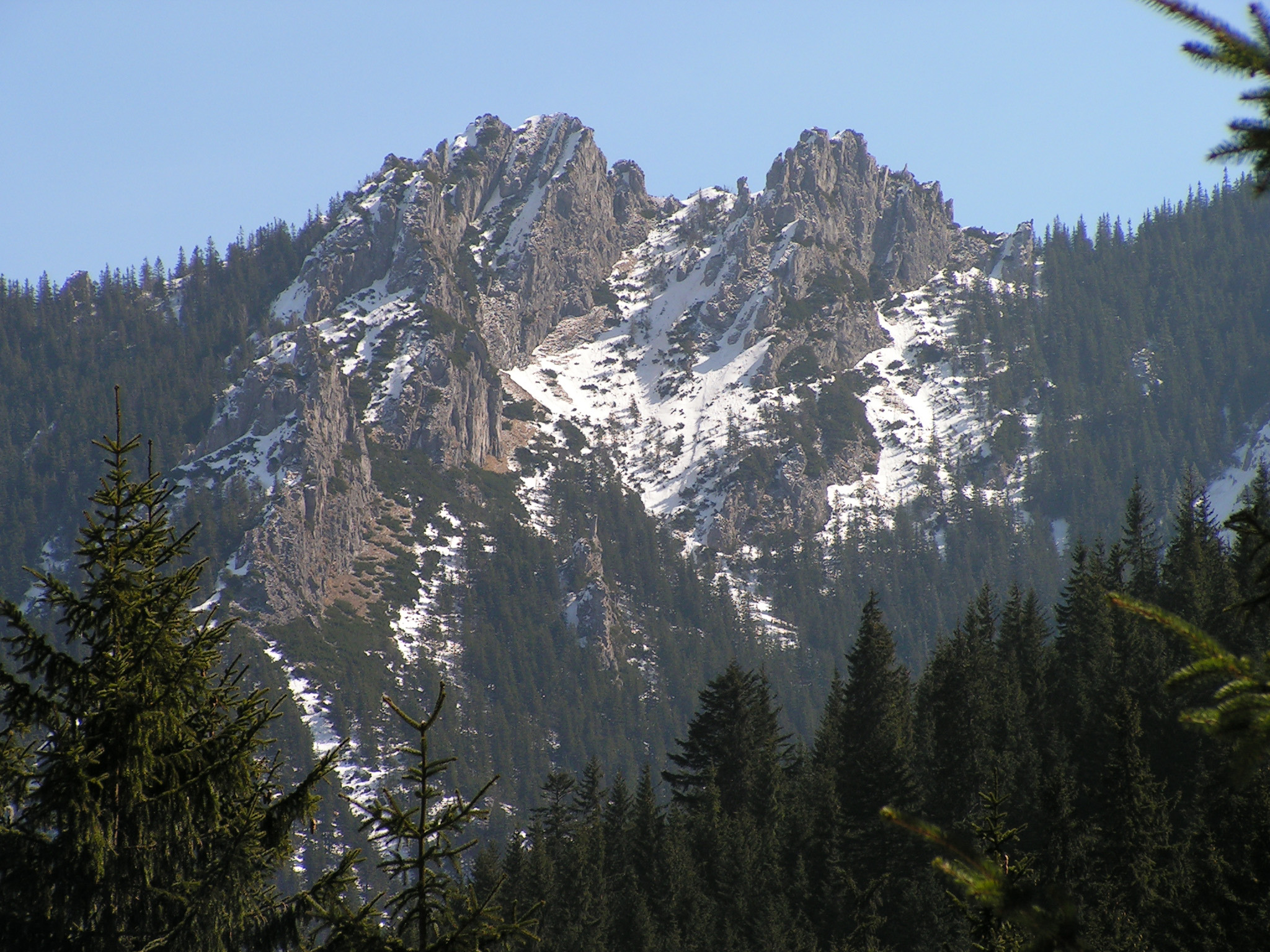 Suchy Wierch (1539 m), view from Dolina Strążyska.